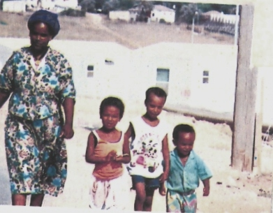 Immigration to Israel